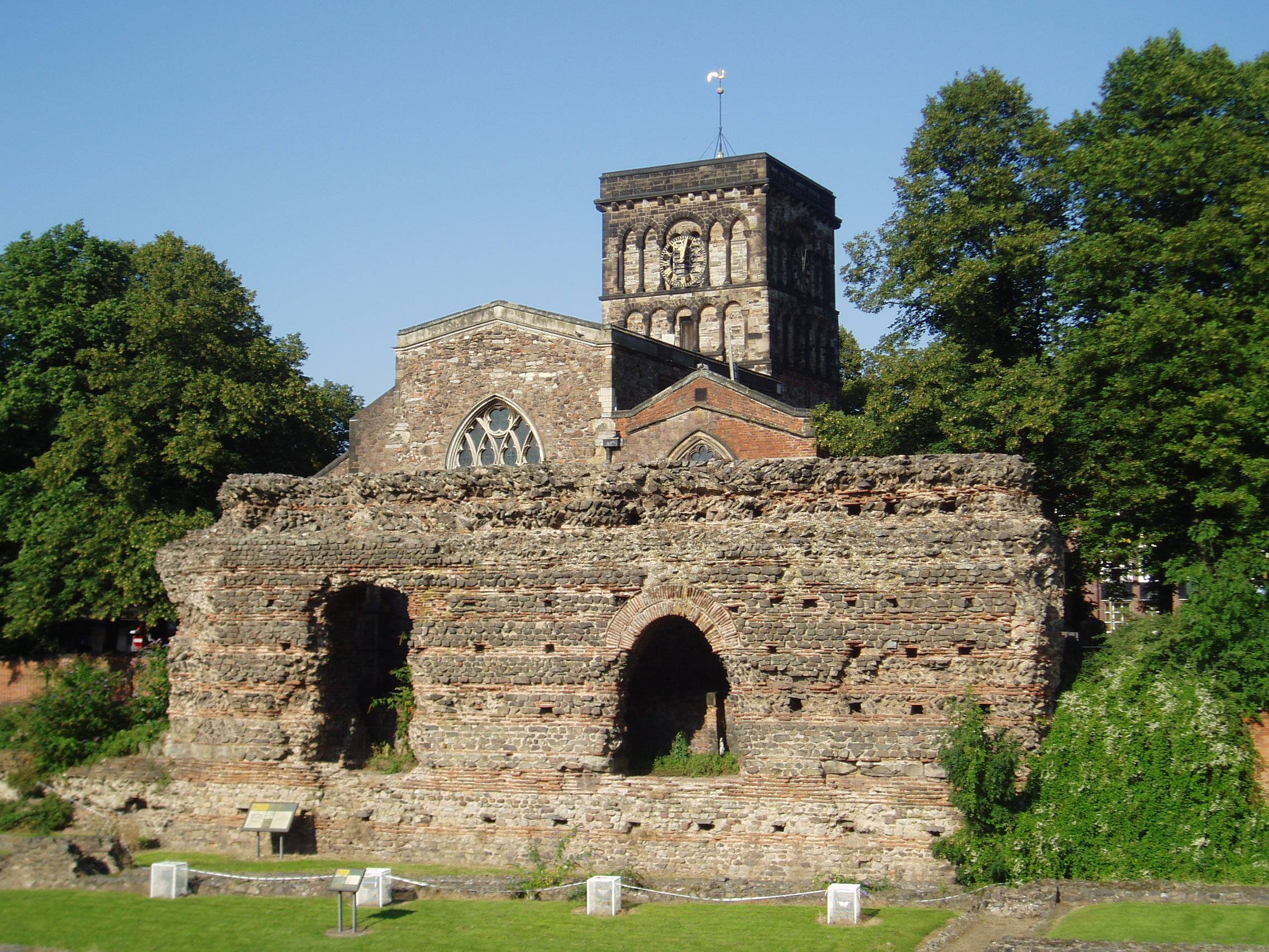 The Jewry Wall and St Nicholas', Leicester. The "Jewry Wall" is in fact part of a Roman Baths complex - it's believed to be the western wall of a palaestra (exercise hall). St. Nicholas is the oldest church in Leicester - the nave is mostly Anglo-Saxon, whilst the tower is Norman and dates from the 13th century.